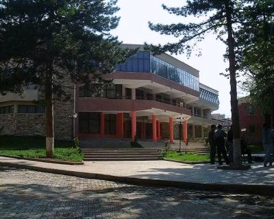 Palace of Culture in Peshkopia